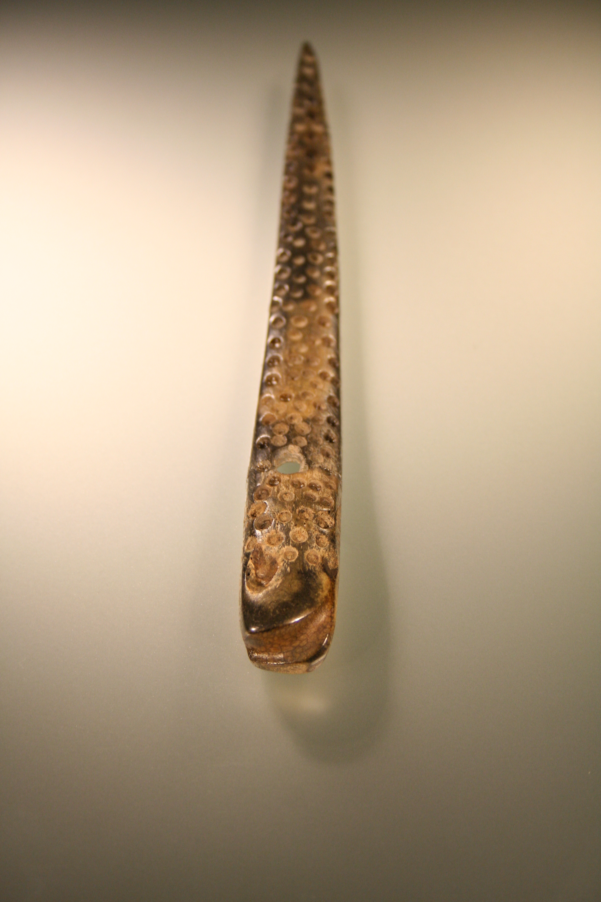 Decorated bone tip, found inside a Linear Pottery culture well at Scheuditz-Altscherbitz